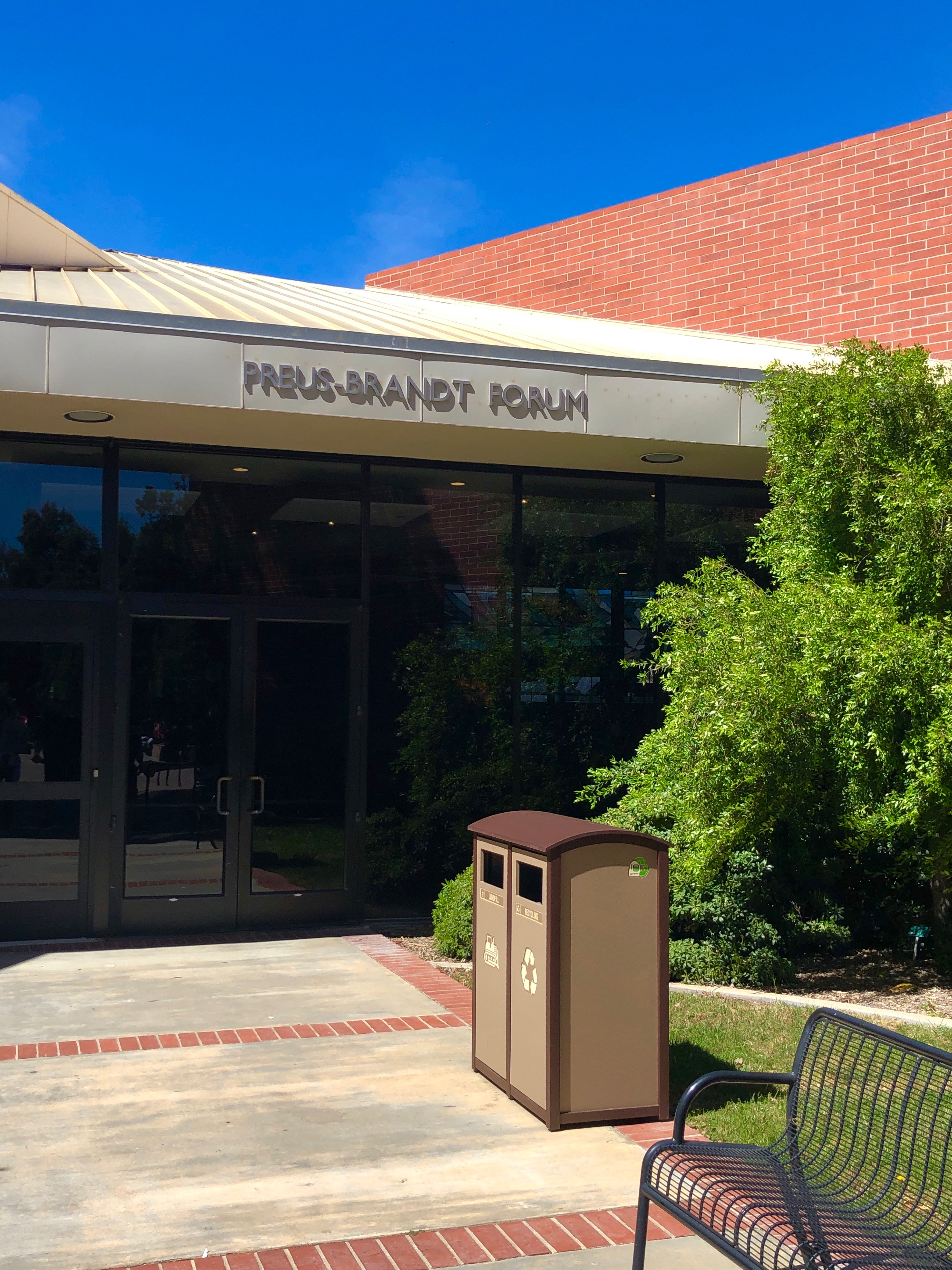 Preus-Brandt Forum at California Lutheran University